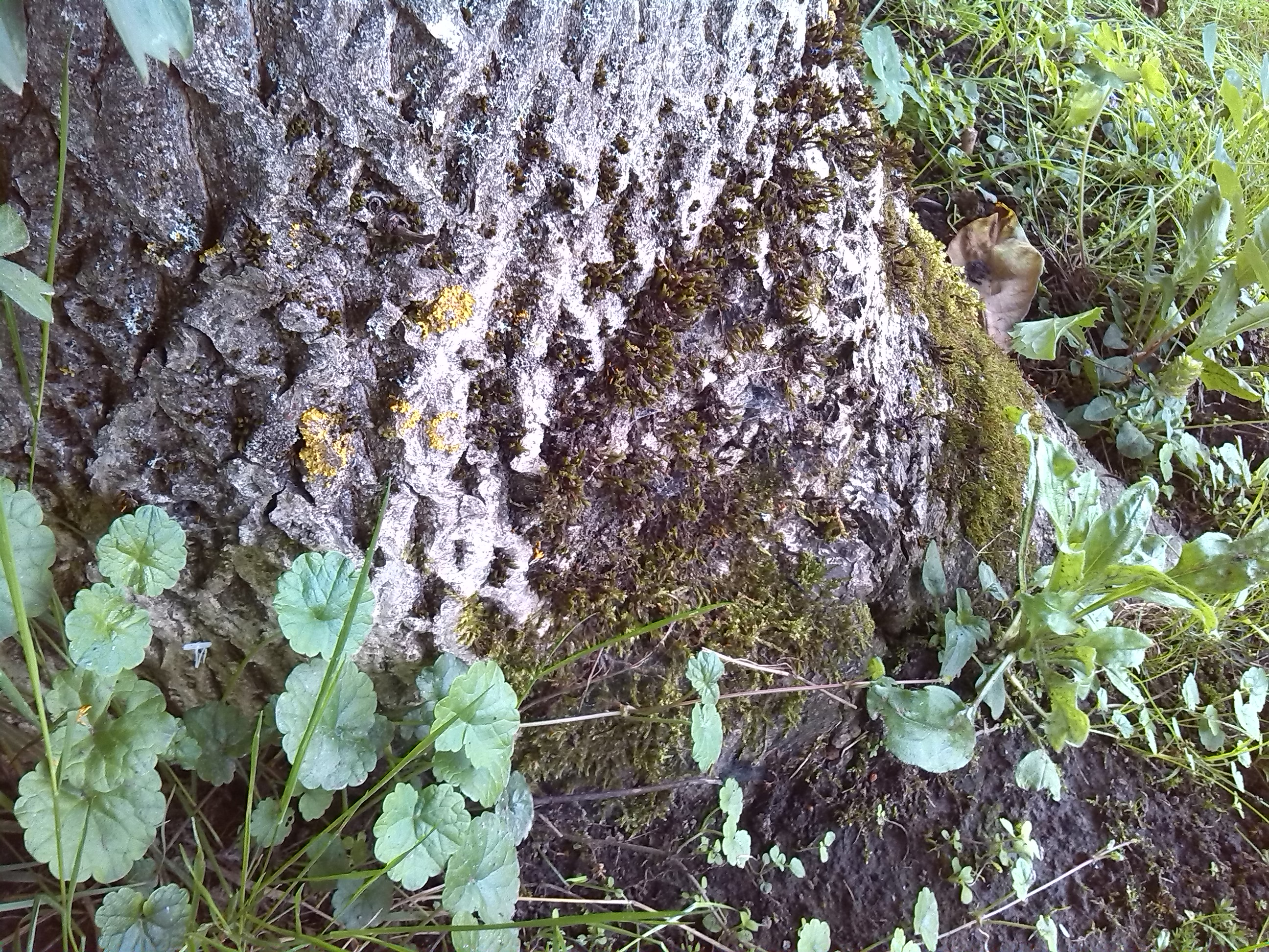 walnut tree